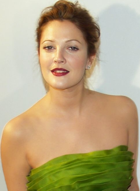 Drew Barrymore depicted person: Drew Barrymore (age: 32.2)